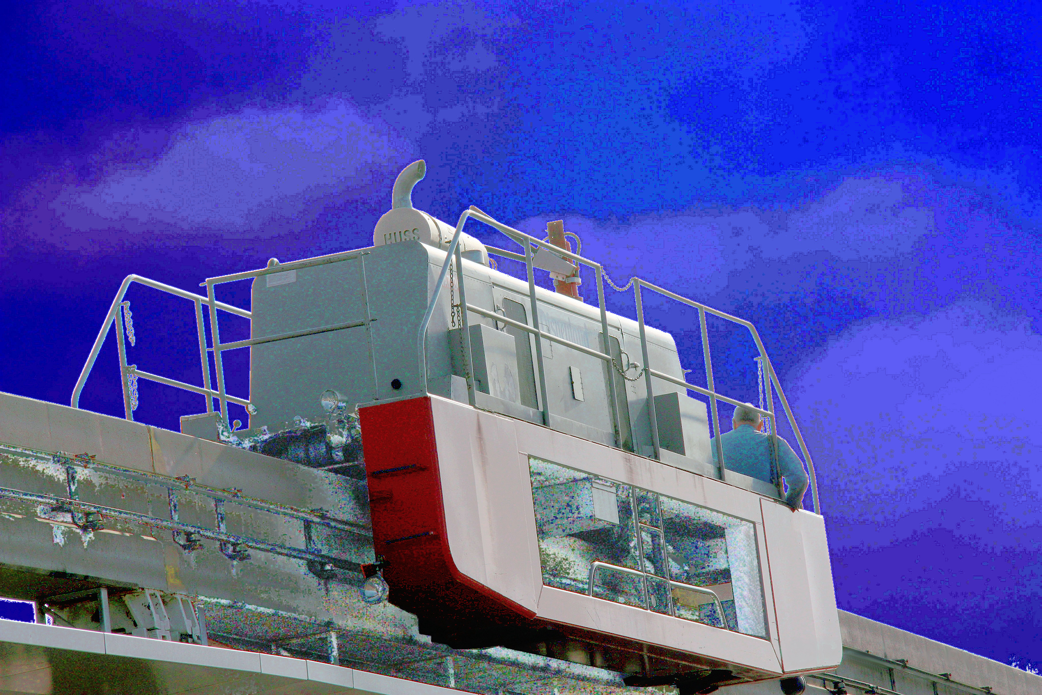 The "Bug" Maintenance Tractor Red of the Disneyland® Monorail System in Anaheim, California operated for maintenance-of-way functions is equipped with Diesel-hydraulic propulsion powerful enough to return a fully loaded monorail train to the station when fitted with tow-bars. It can be controlled from each of four corners of the "German Saddlebags" low slung operators' "buckets" enabling pinpoint tractor positioning and close beam guideway inspection.